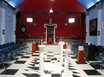 Photo taken Dec 9, 2012, this image shows the interior of the Masonic Lodge Hall in Paphos, Cyprus. Grand Lodge of Cyprus.